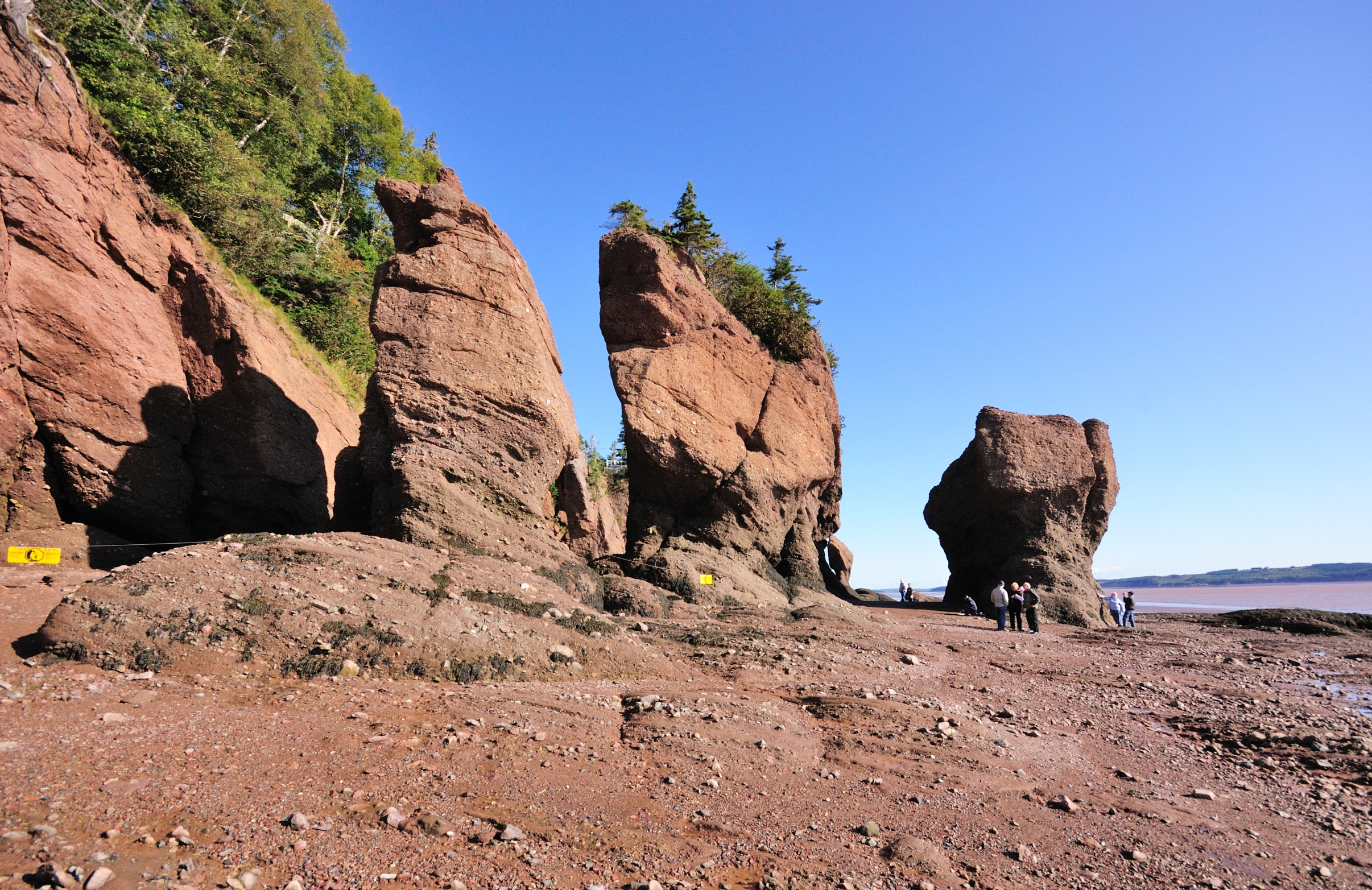 Hopewell Rocks at low tide